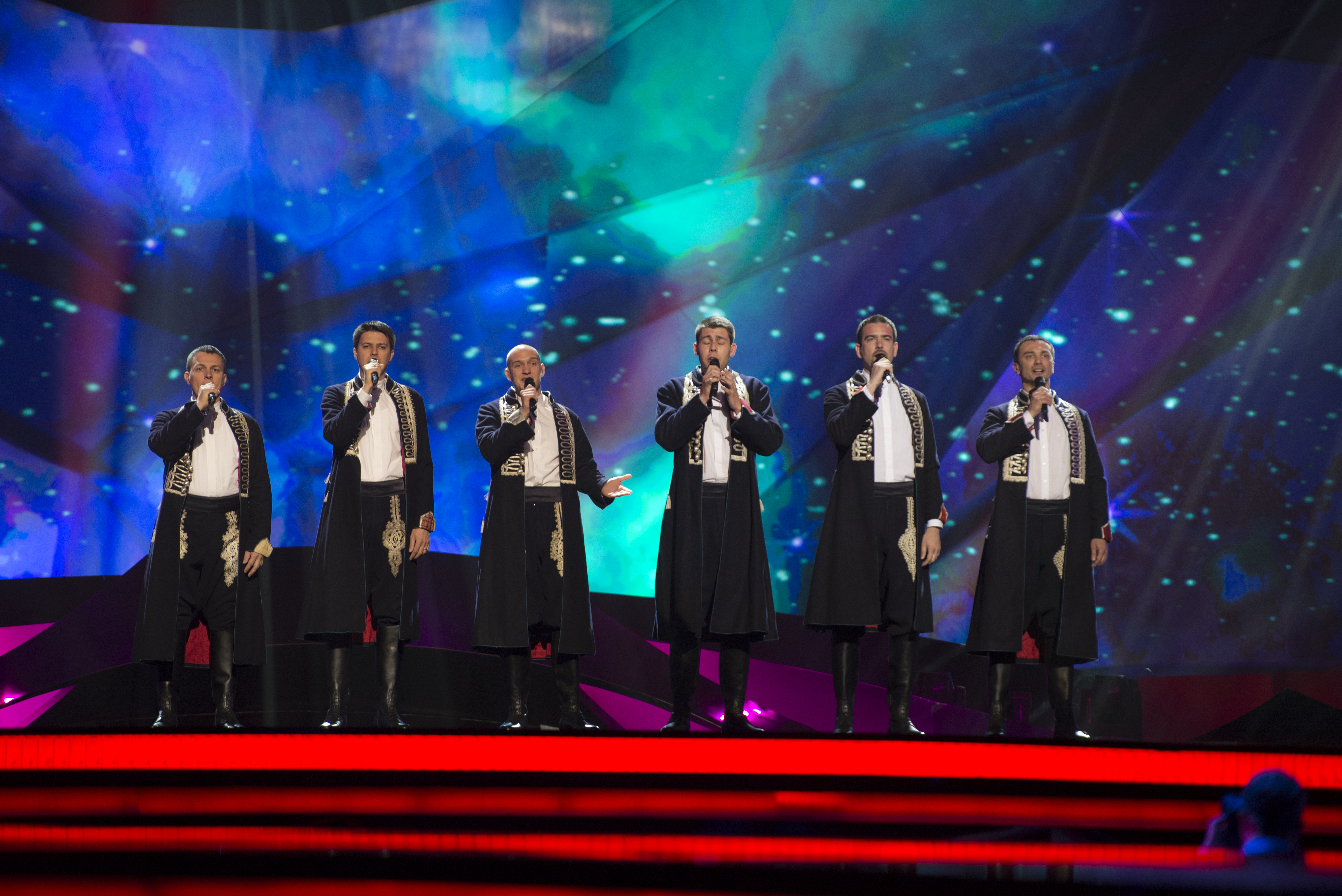 Klapa s Mora representing Croatia with the song "Mižerja" during the first dress rehearsal of the first semi final of the Eurovision Song Contest 2013 in Malmö. (Help translate this text)